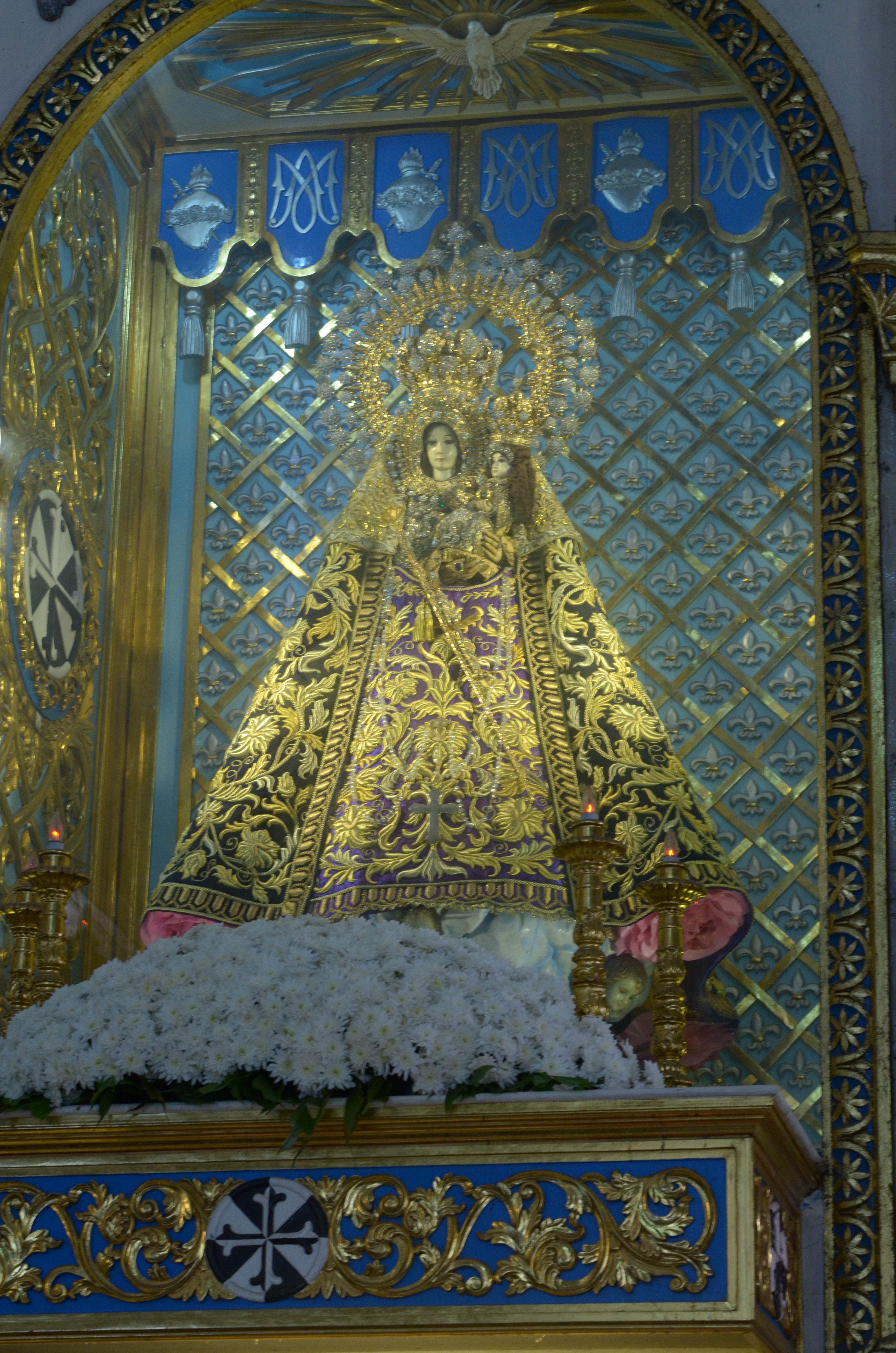 Our lady of Manaoag